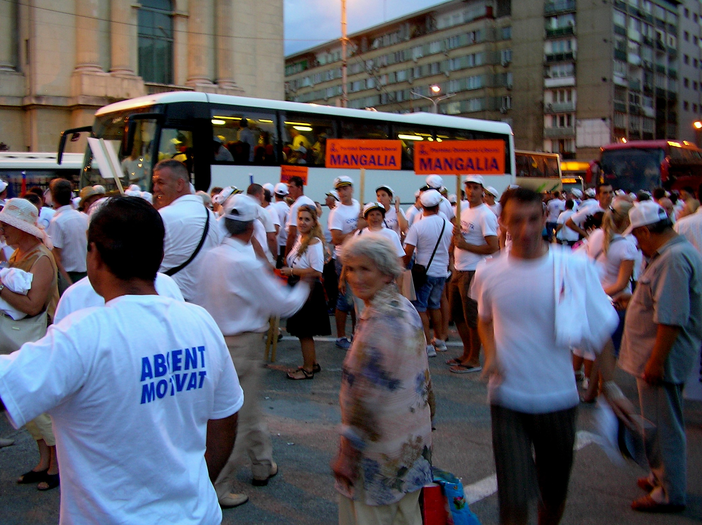 Members of the Democratic Liberal Party from the Mangalia branch, after attending a meeting in support of Traian Băsescu, the impeached Romanian President.